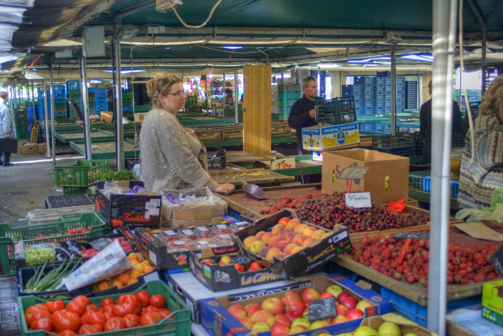 Wielkopolski Square, Poznań, Poland